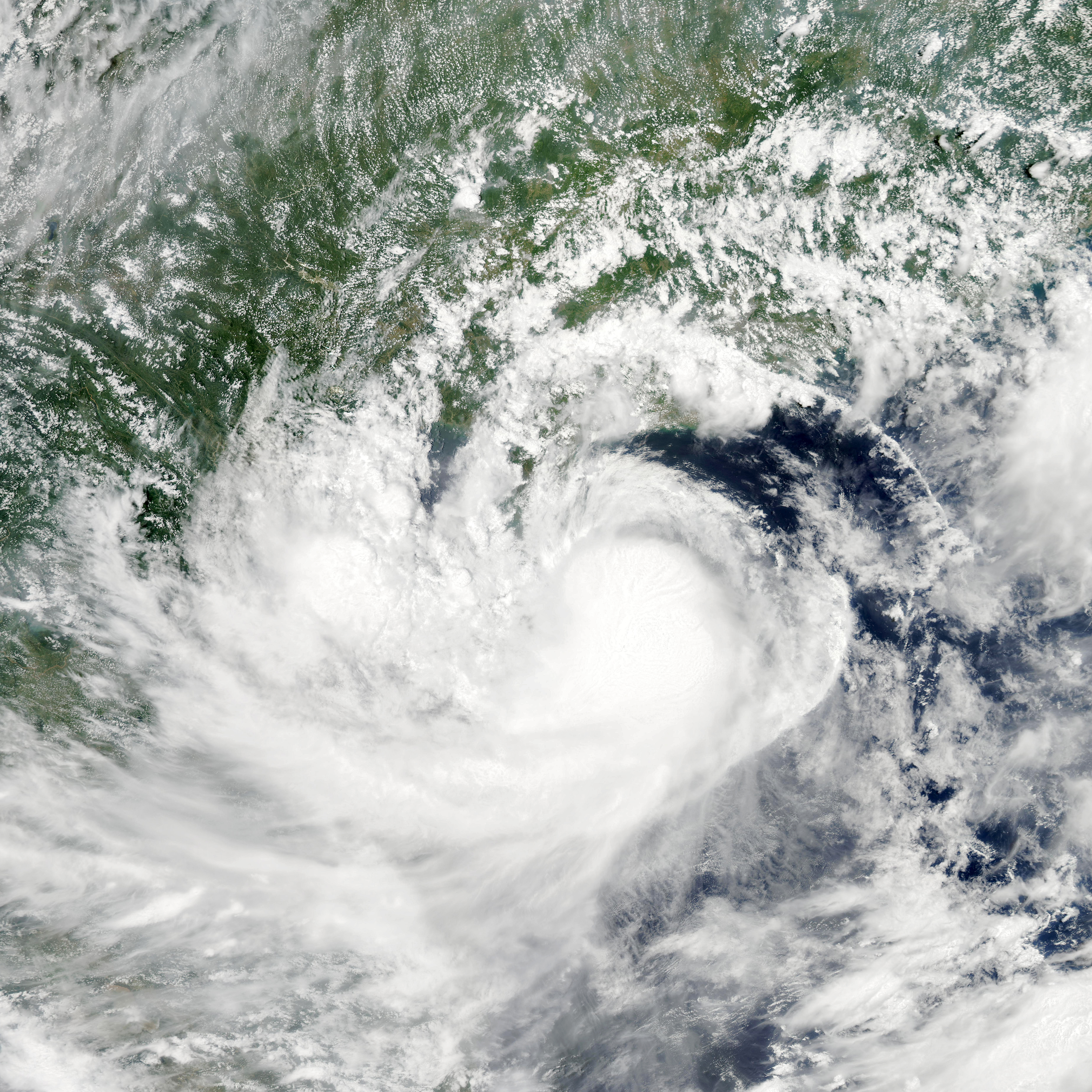 Tropical Storm Nock-ten nearing landfall on Hainan on July 29, 2011.